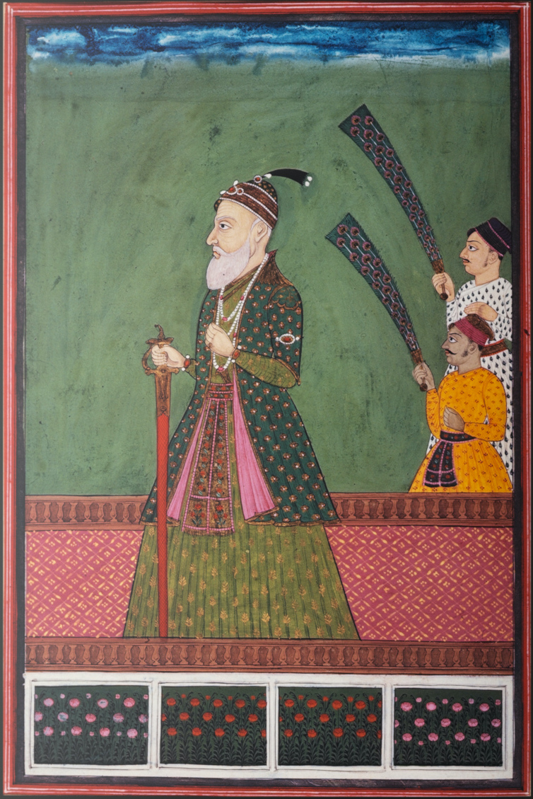 Portrait of Asaf Jah I, Nizam of Hyderabad